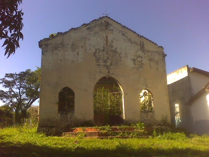 Igreja antiga do centro do distrito miraporanga uberlândia